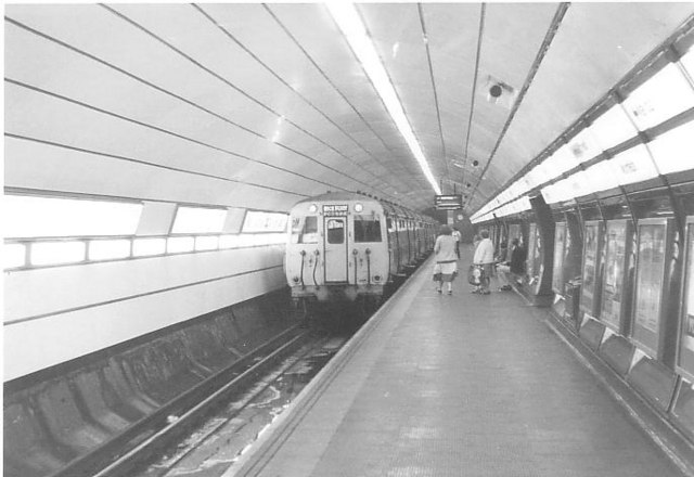 Moorfields railway station Original description: Moorfields Deep Level station Very recently opened, the platform for Wirral services at Moorfields station. One of the pre-war design Wirral and Mersey lines trains, modified with additional end doors, is arriving on a service for Rock Ferry.